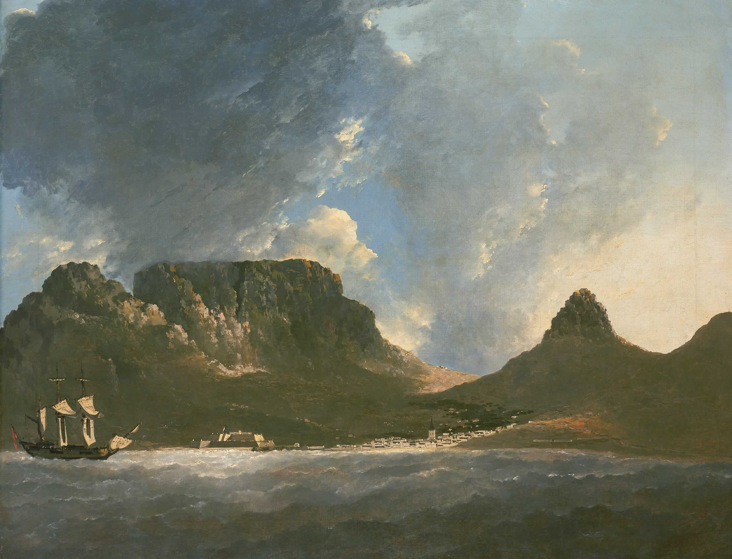 A view of the Cape of Good Hope, taken on the Spot, from on board the Resolution, Capt. Cook, Oil on canvas